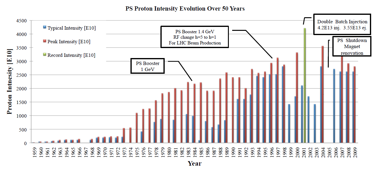 A plot showing the increase in proton intensity on the PS since its start of operation